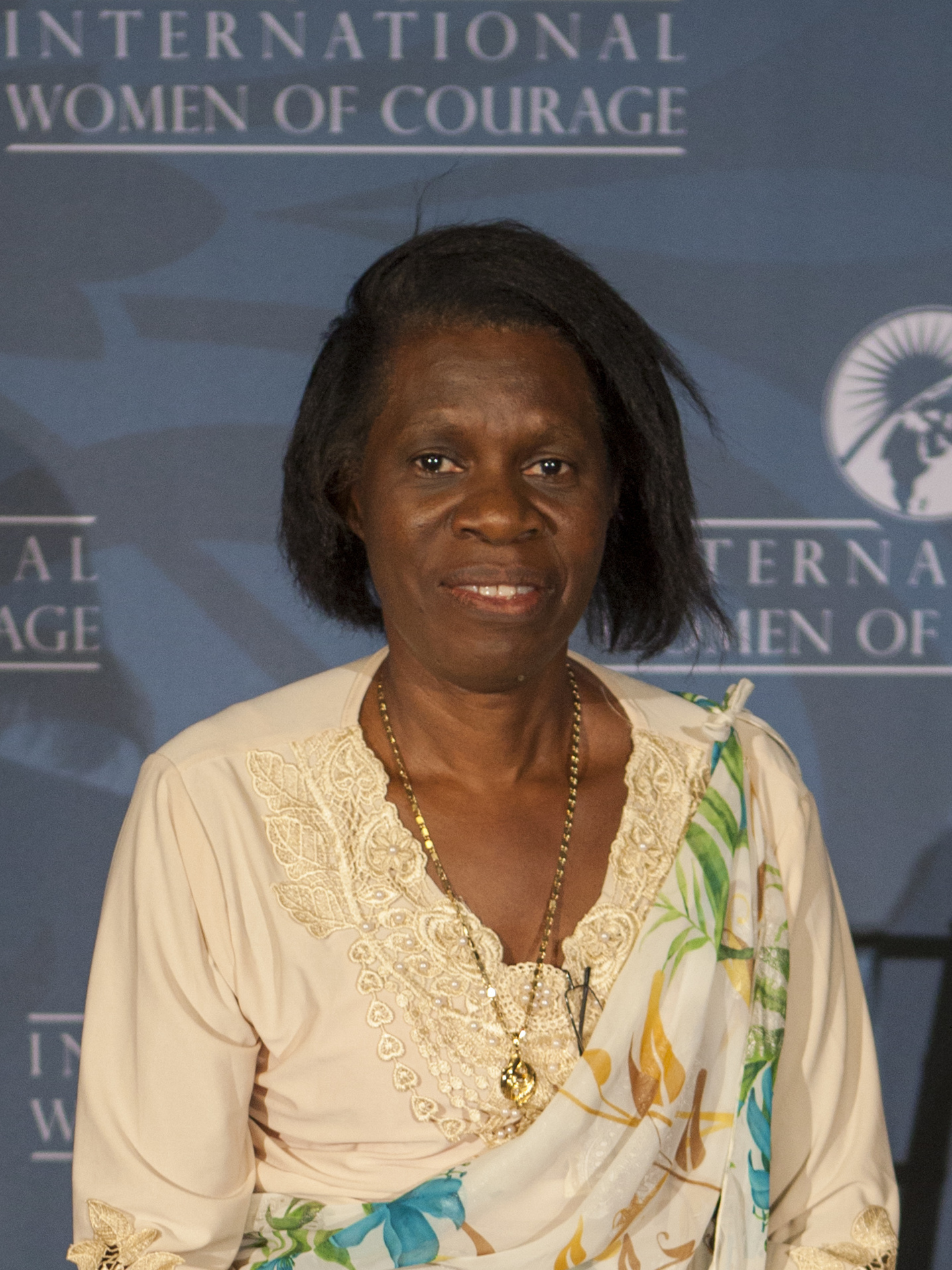 On March 23, Acting Under Secretary for Public Diplomacy and Public Affairs & Department Spokesperson Heather Nauert hosted the annual International Women of Courage (IWOC) Awards at the U.S. Department of State to honor 10 extraordinary women from around the world. First Lady of the United States Melania Trump delivered special remarks at the ceremony.